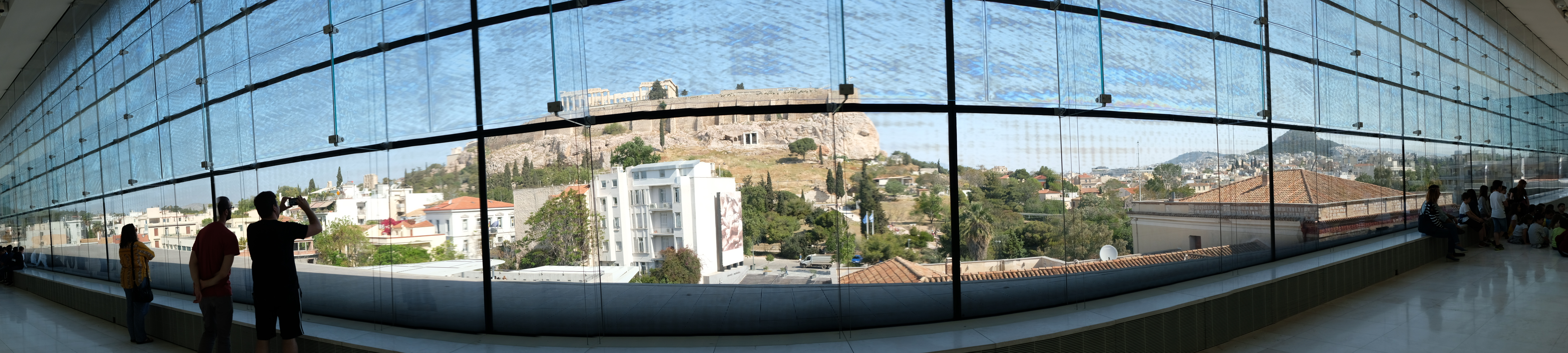 Panorama inside Acropolis Museum